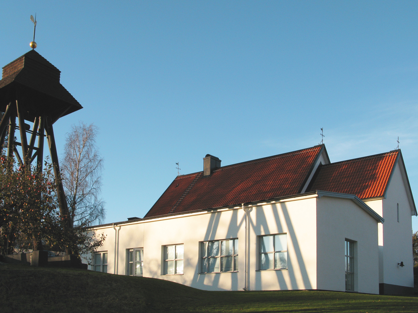 Bymarkskyrkan